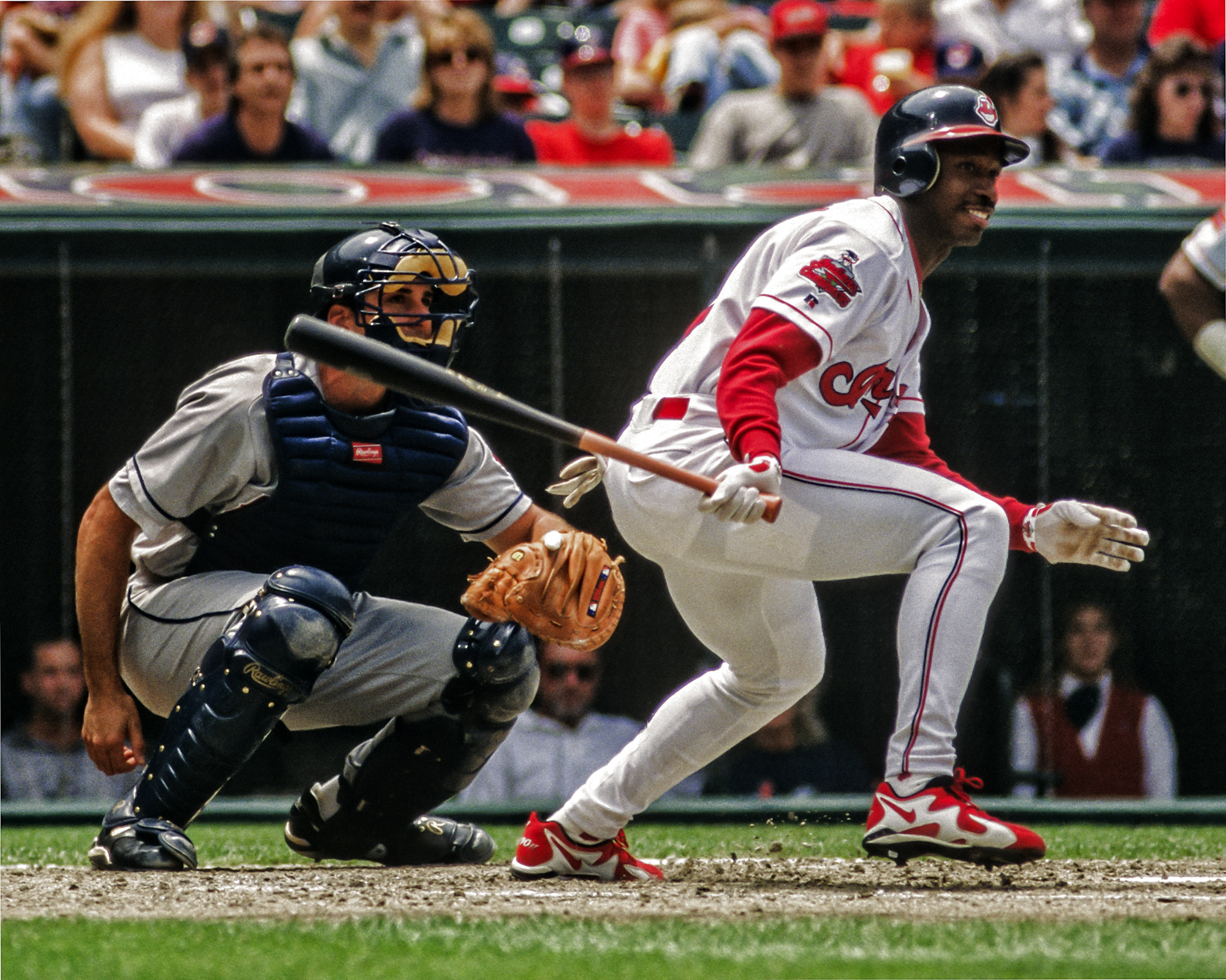 The California Angels meet the Cleveland Indians in a game @ Jacobs Field on June 8, 1996. The batter is Kenny Lofton. Check out the box score @